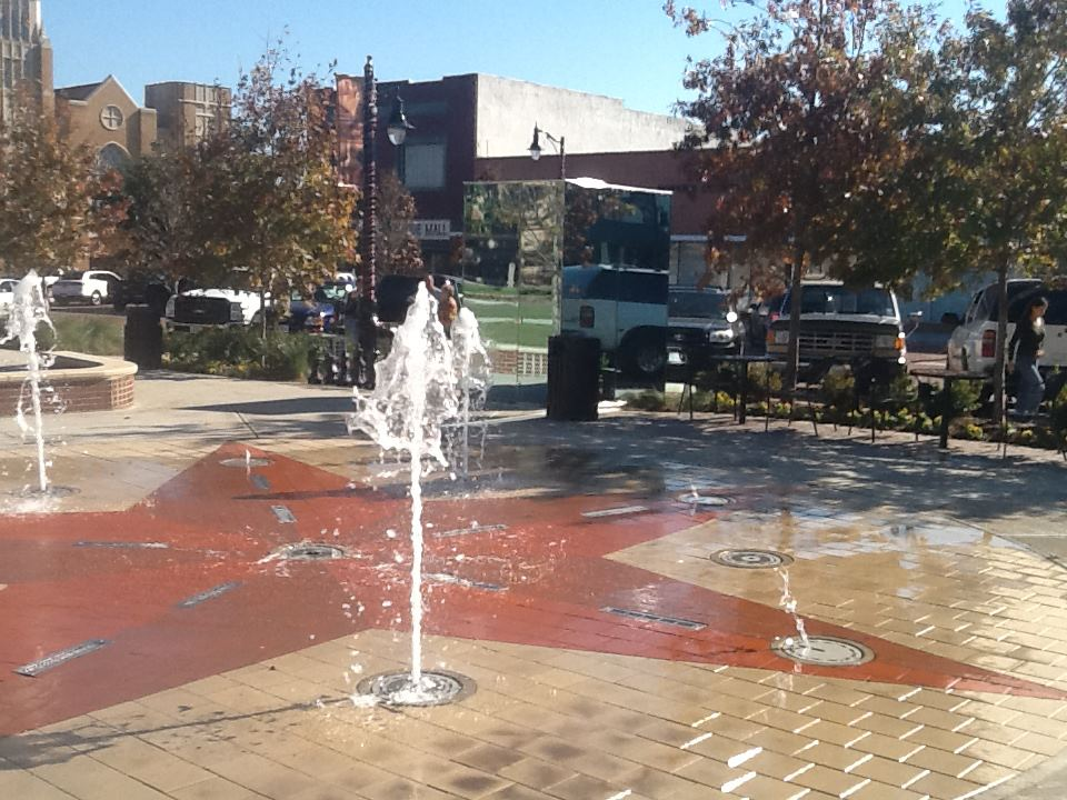 Splash Pad in Downtown.